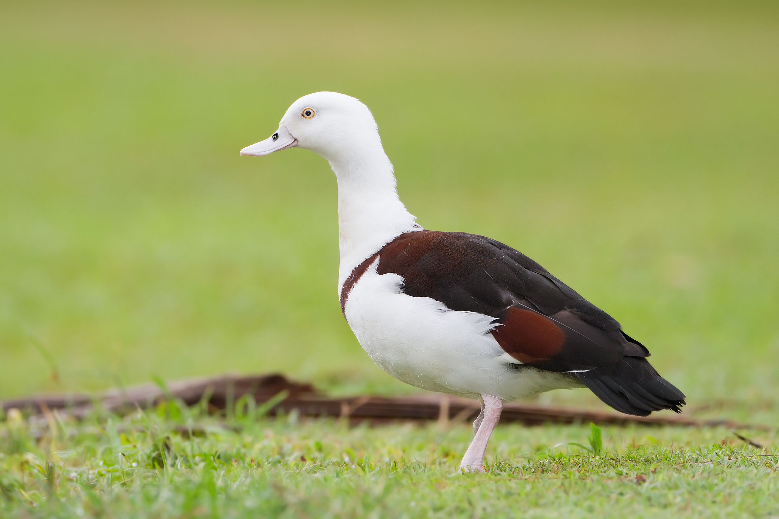 Radjah Shelduck (Tadorna radjah), Centenary Lakes, Cairns, Queensland, Australia